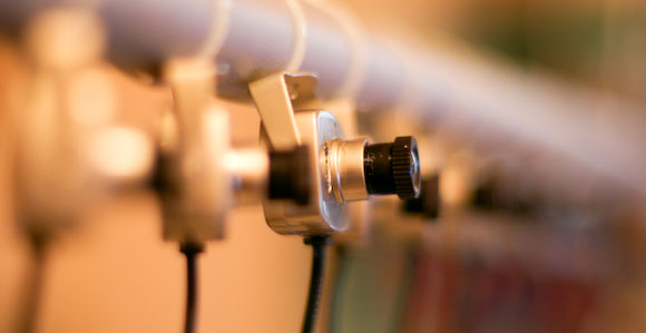 A row of security cameras set up to film a "bullet time" visual effect.